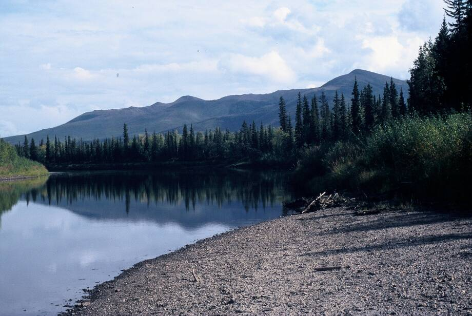 typical gravel bar on the Nowitna River, Alaska, USA